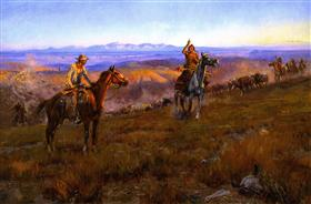 Work by Charles Marion Russell